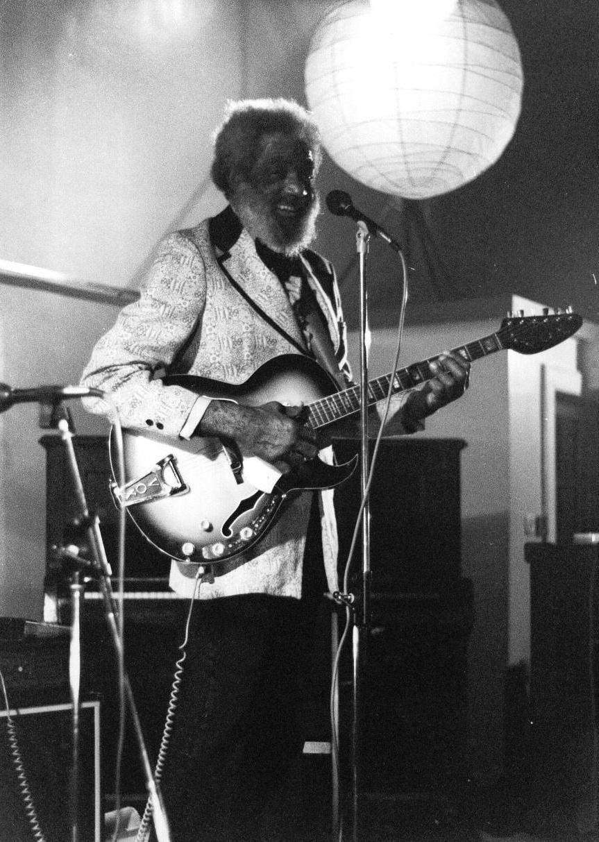 Slim Gaillard at the Queens Hall, Edinburgh 1982